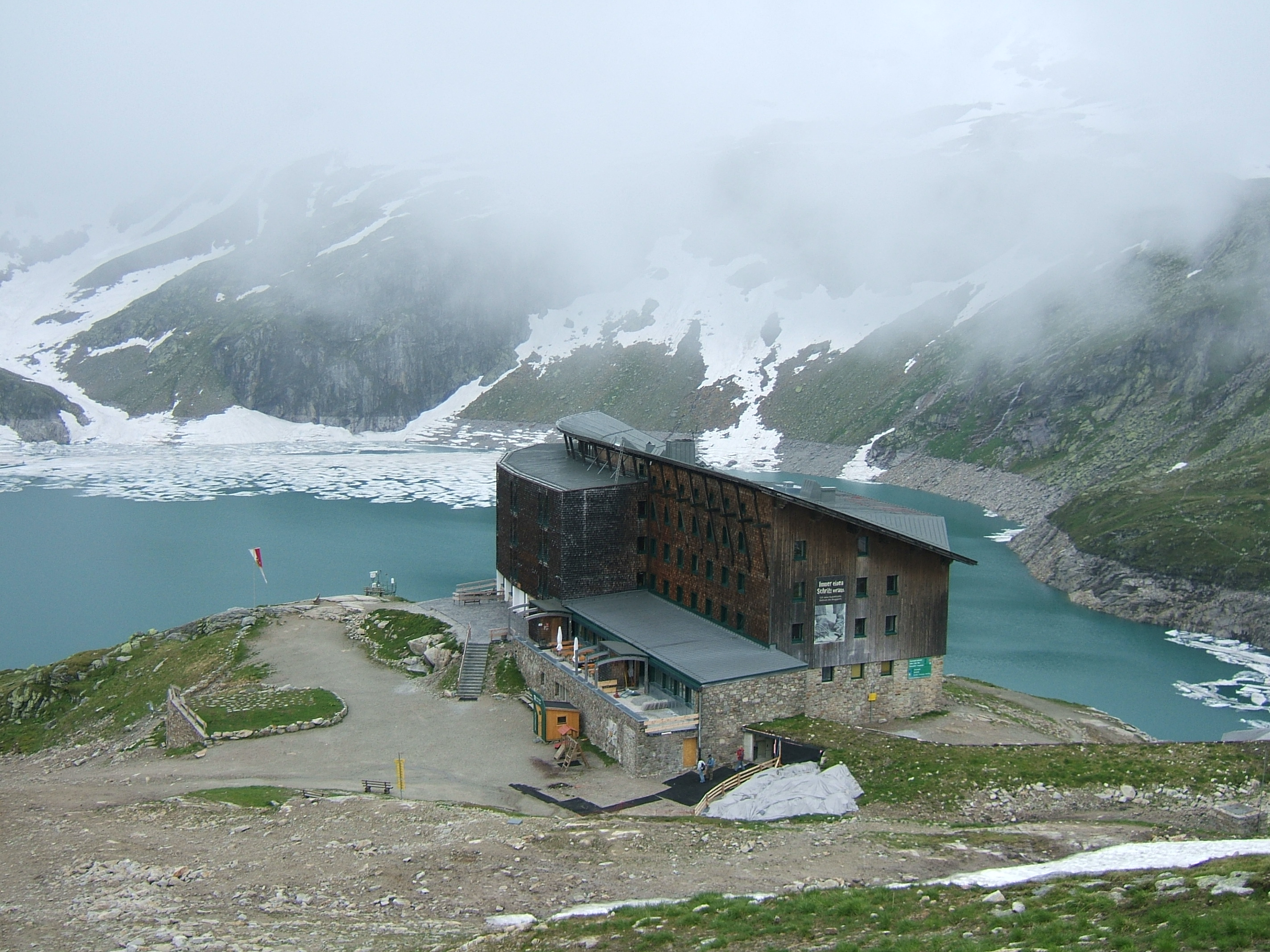 Rudolfshütte and Weißsee in Granatspitzgruppe, Hohe Tauern, Austria